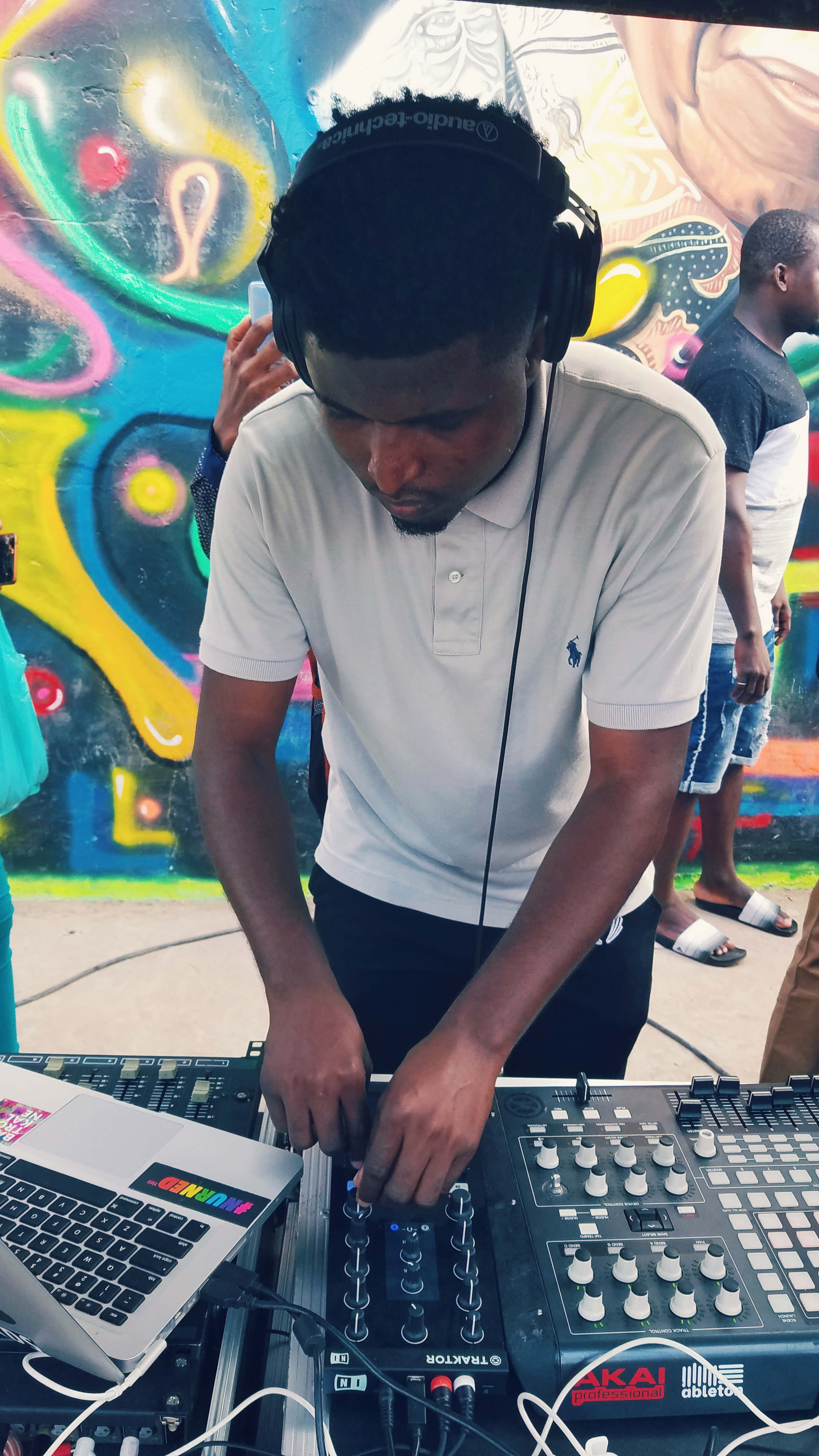 Performing at Asokpor Corner during Chalewote 2018.